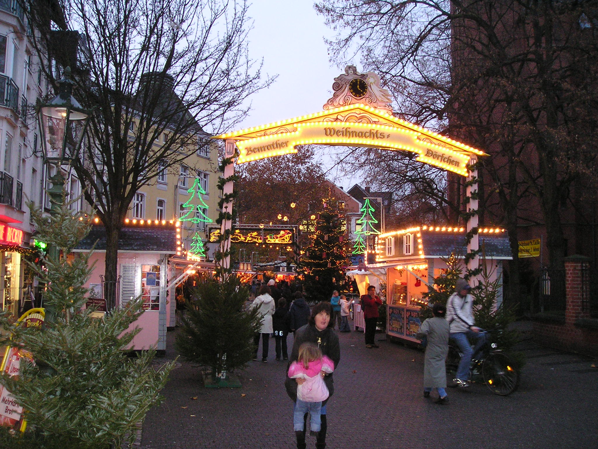 Christmas market 2007 in Düsseldorf-Benrath in the evening